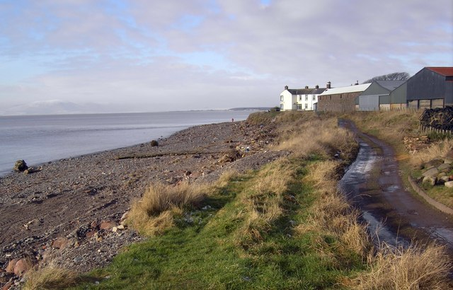 Newbie Mains The track to Newbie Mains.